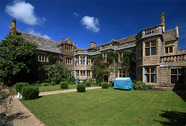 Mapperton Manor House (2) View from the inner courtyard of Mapperton showing the north ranging Tudor wing to the left, and the C17 main facade on the right.